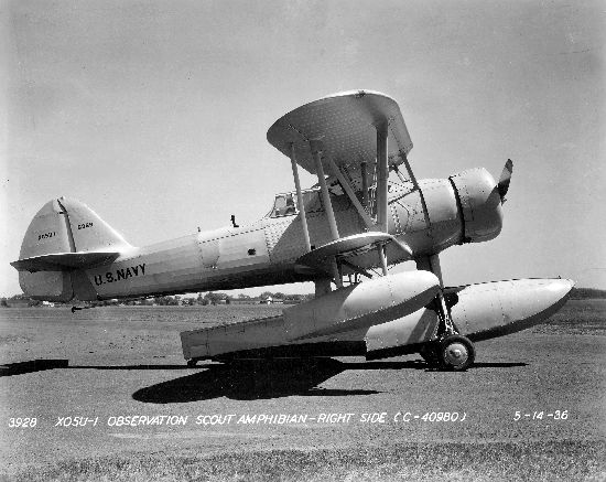 Vought XO5U-1 observation-scout floatplane of the U.S. Navy.